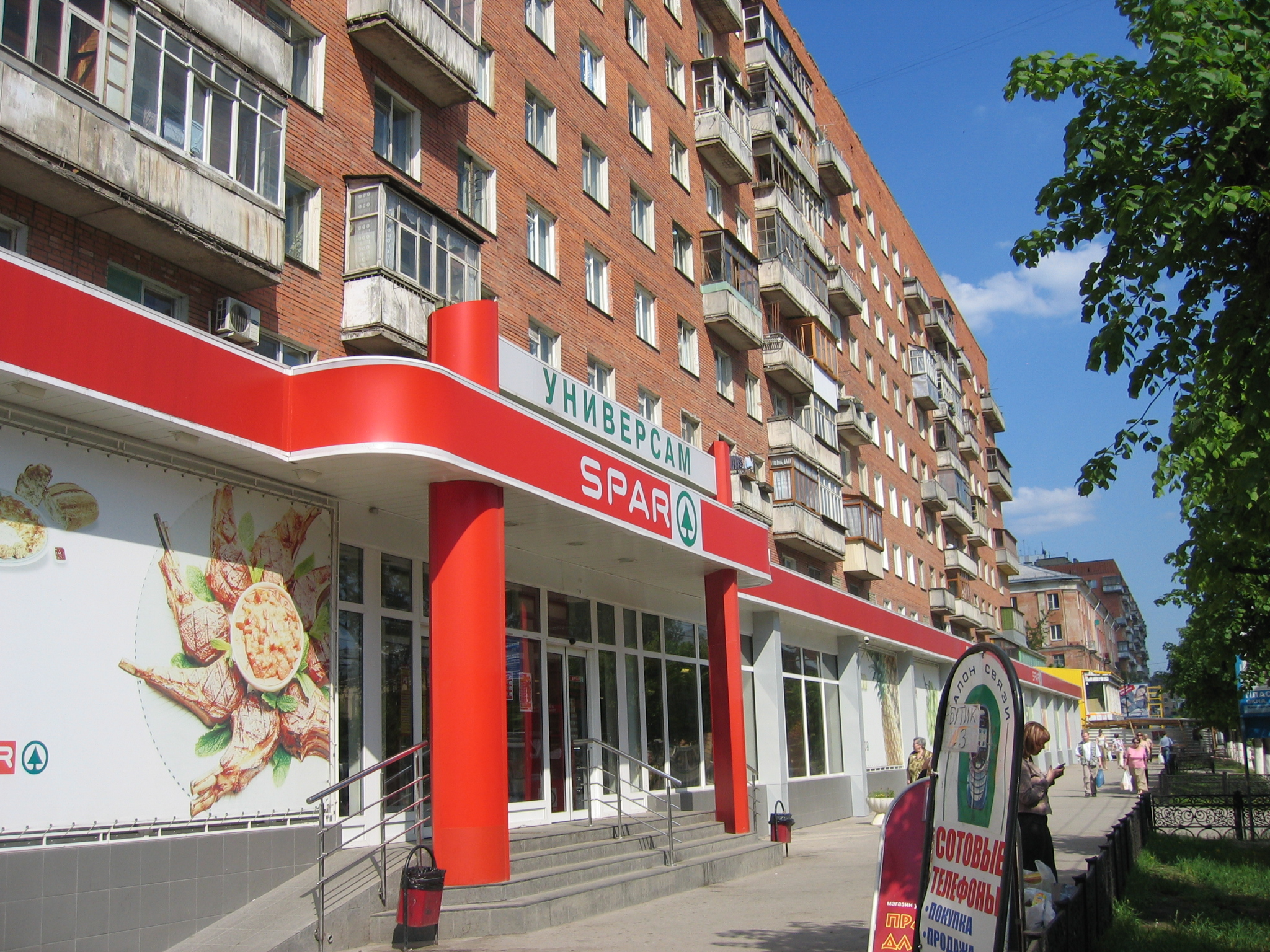 SPAR supermarket in Tula